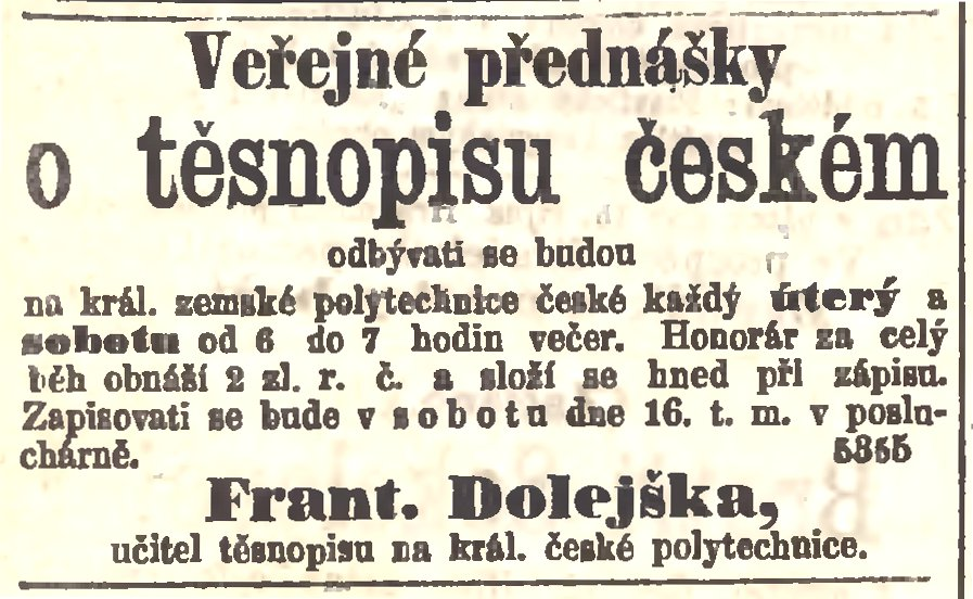 Classified ad, promoting public stenography classes of František Dolejška at a Czech Institute of Technology in 1869.